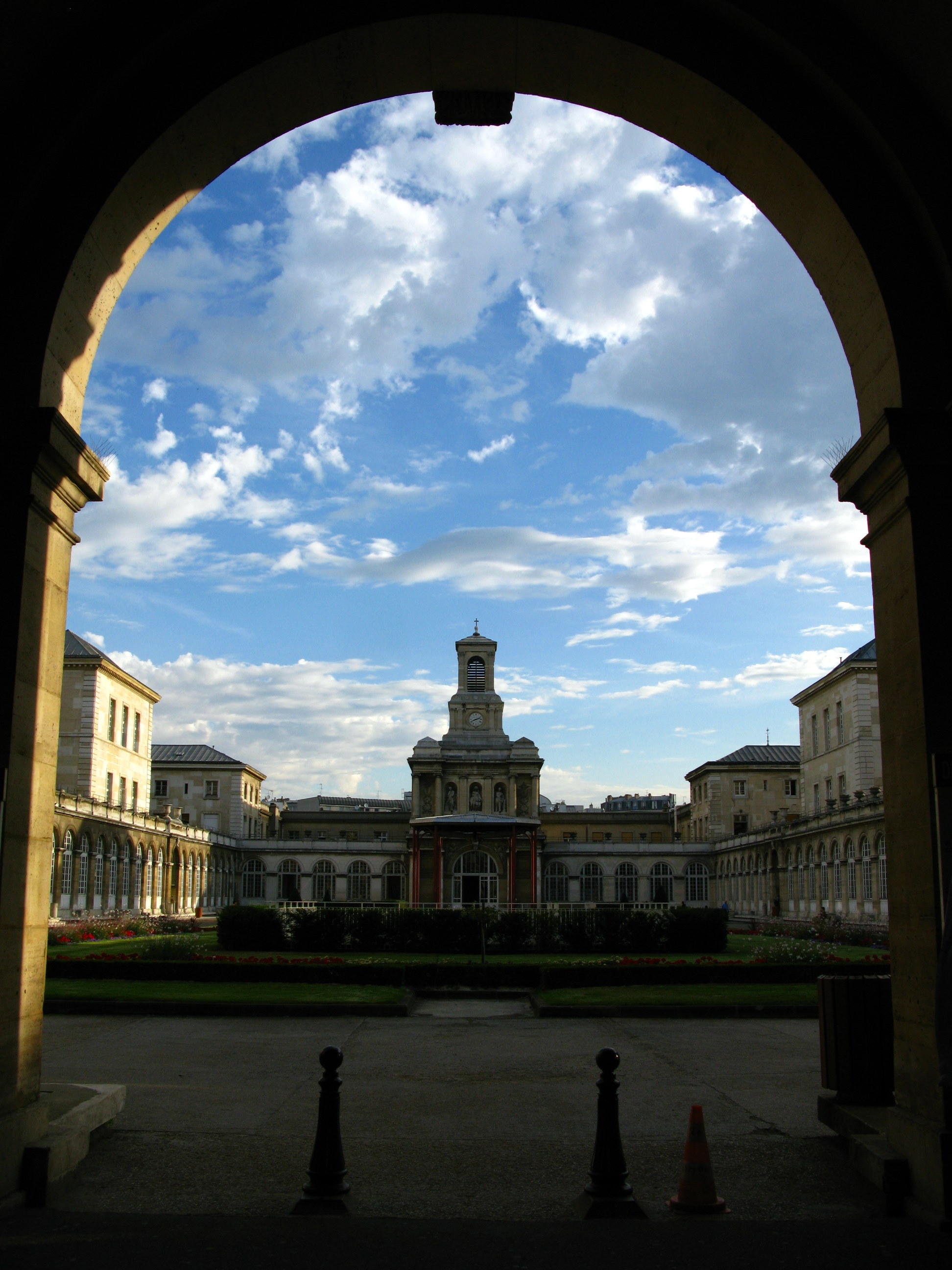 Courtyard of the hospital with a chapel in the background in 10. Arrondissement of Paris / France / EU.